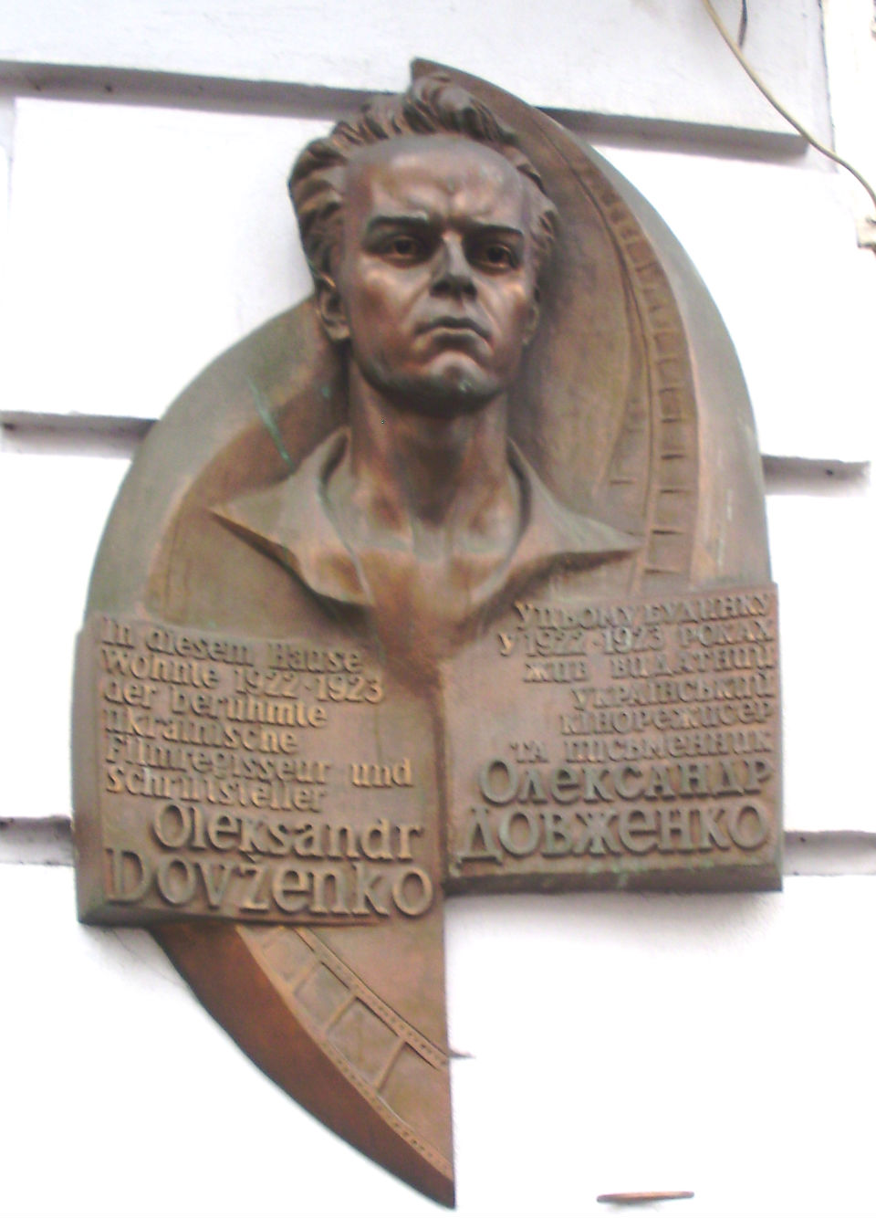 Bismarckstraße 10627 Berlin, Germany